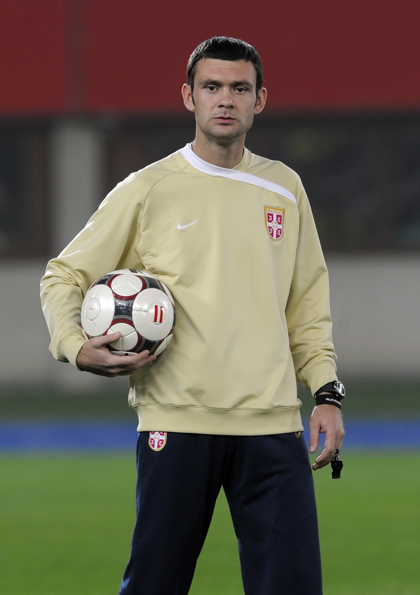 Rogic as assistant coach - Serbia national football team